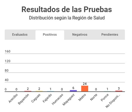 Resultados de las pruebas 24 marzo 2020